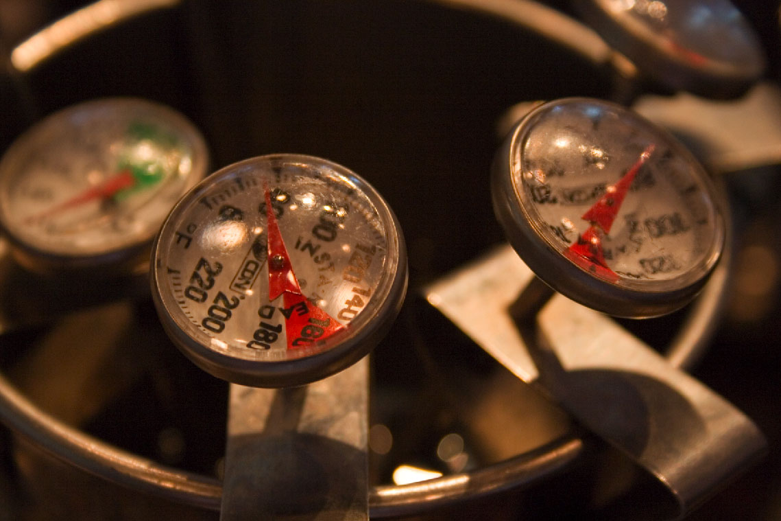 Picture of milk thermometers taken by User:Tijuana Brass. GFDL.